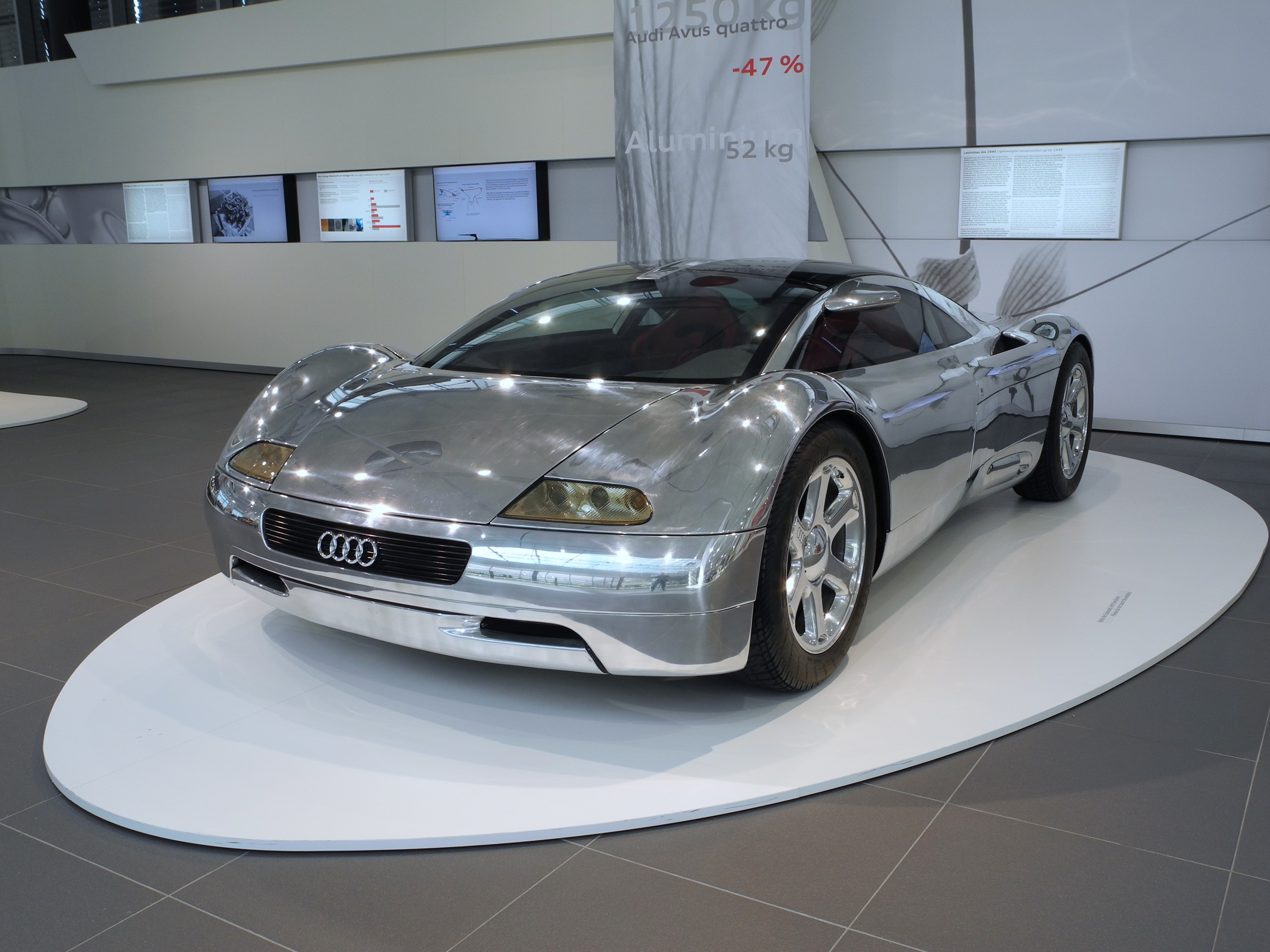 Audi Avus quattro